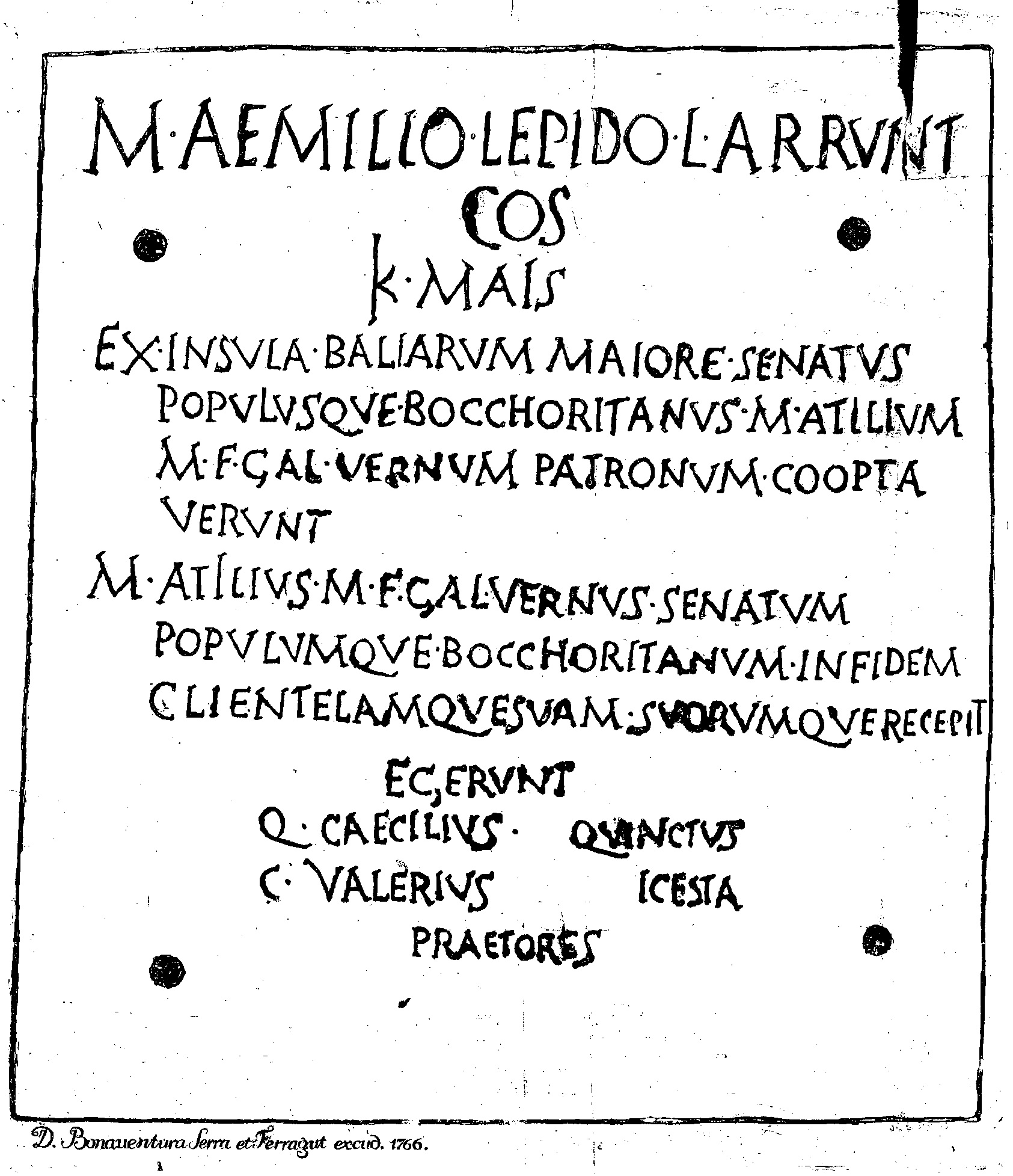 Reproduction of Tabula Patronatus of the city of Bocchorus/Bocchoris found in Pollença. M(arco) Aemilio Lepido L(ucio) Arrunt(io) / co(n)s(ulibus) / K(alendis) Mai(i)s / ex insula Baliarum maiore senatus / populusque Bocchoritanus M(arcum) Atilium / M(arci) f(ilium) Gal(eria) Vernum patronum coopta/verunt / M(arcus) Atilius M(arci) f(ilius) Gal(eria) Vernus senatum / populumque Bocchoritanum in fidem / clientelamque suam suorumque recepit / egerunt / Q(uintus) Caecilius Quinctus / C(aius) Valerius Icesta / praetores. CIL 11 3695 + pp. 962 & 1053 (= CIBalear 22 = InsBaliares 26 = D6098 = AE 1957, 317)